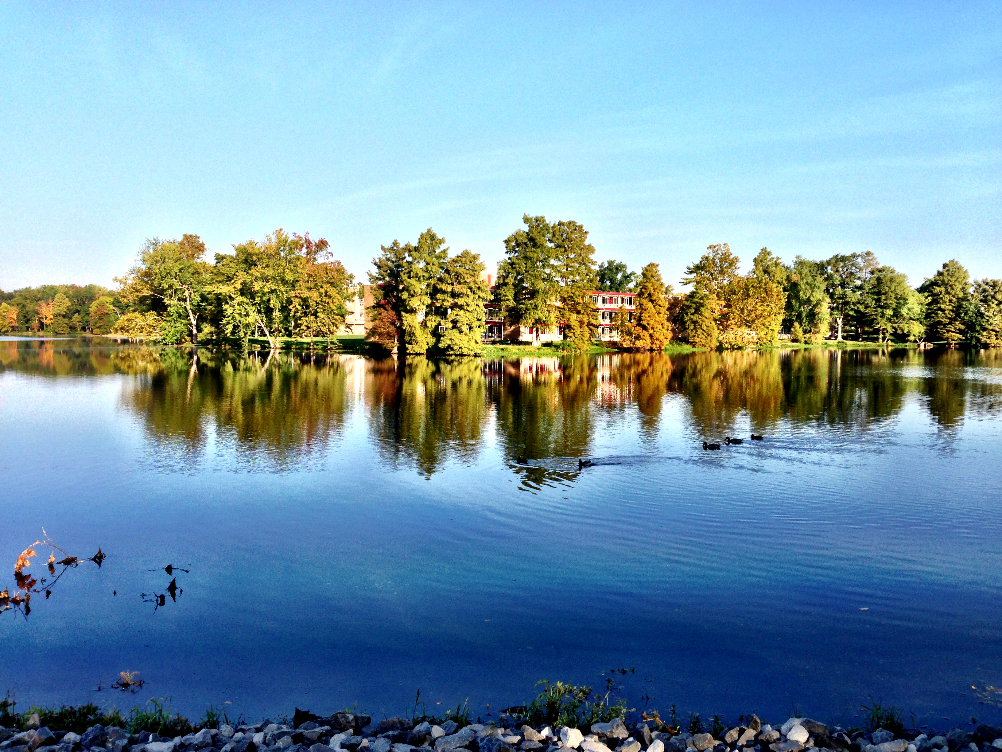 SIU Lake and Residence Halls